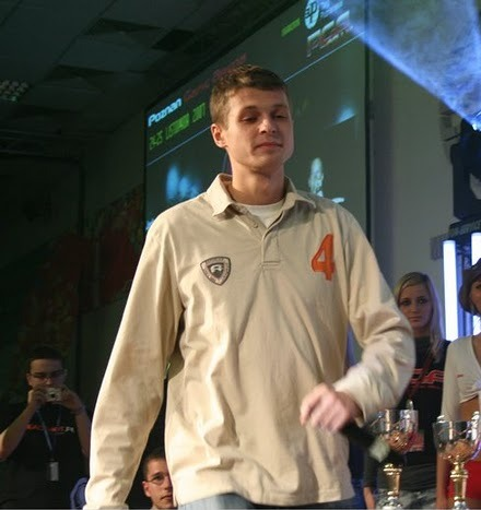 Polish rapper Pogo